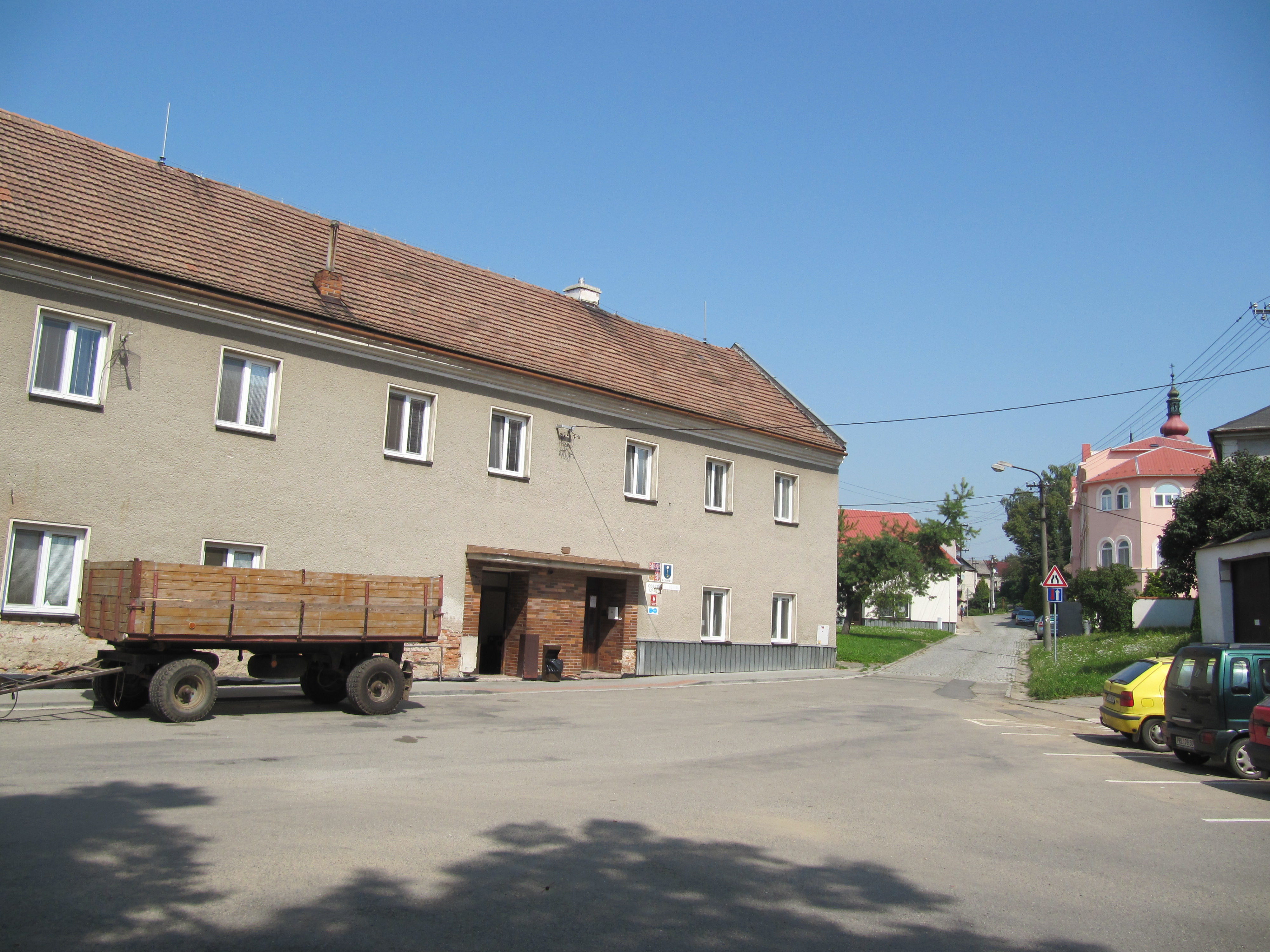 Kokory, Czech Republic, Přerov District. Municipal office. This photograph was taken within the scope of the third year of the 'Czech Municipalities Photographs' grant.